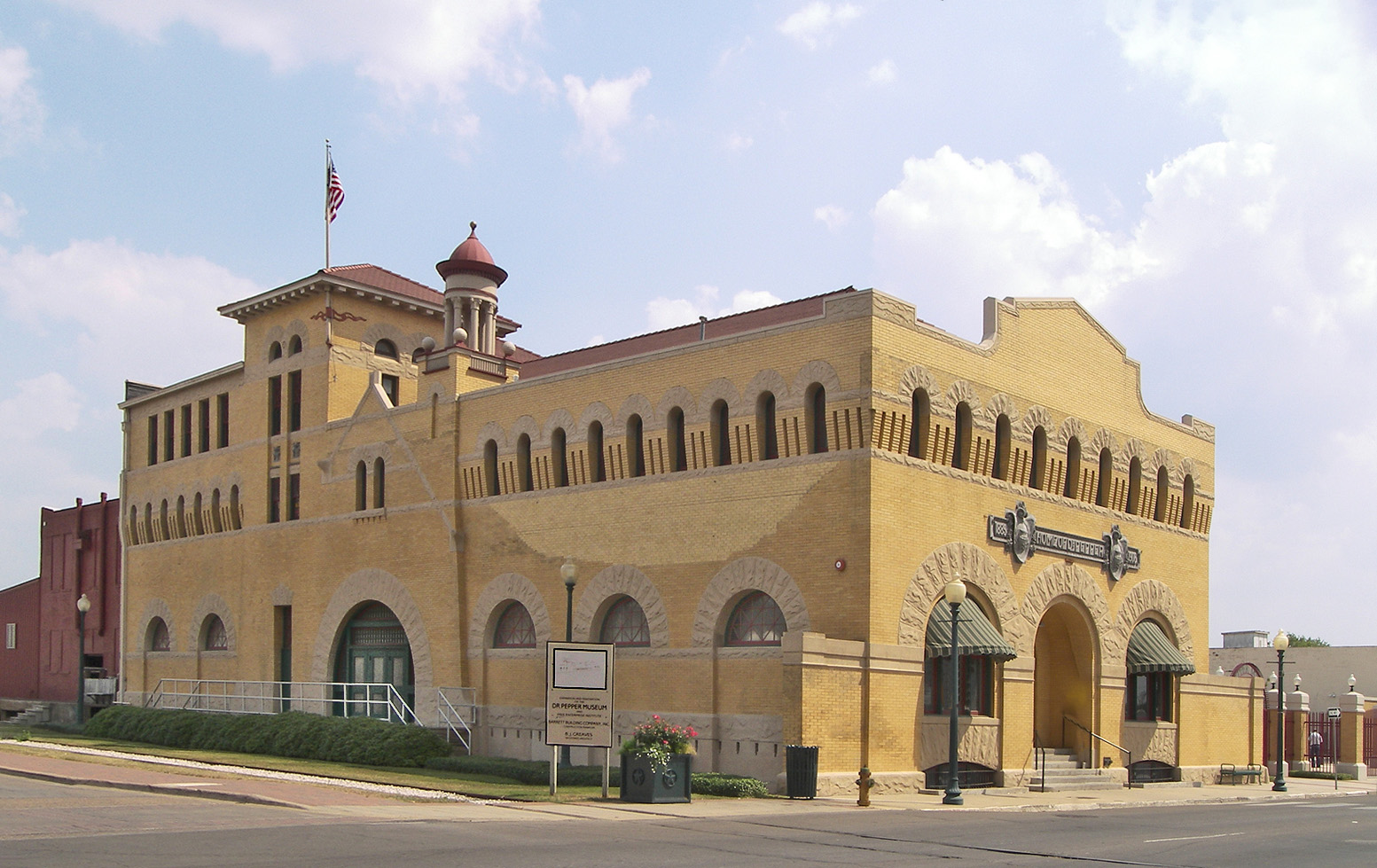 The Artesian Manufacturing and Bottling Company Building in Waco, Texas, United States. The Romanesque Revival style building was completed in 1906, and Dr Pepper was bottled there until the 1960s. It now houses the Dr Pepper Museum. The building was listed on the National Register of Historic Places on May 26, 1983.